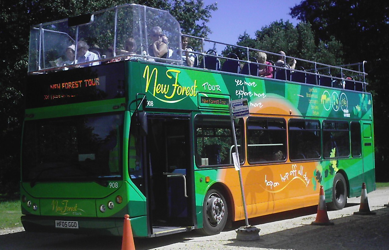 Solent Blue Line's 908, a Volvo B7TL/East Lancs Myllennium Vyking open top, operating the New Forest Tour at Exbury Gardens on the route.